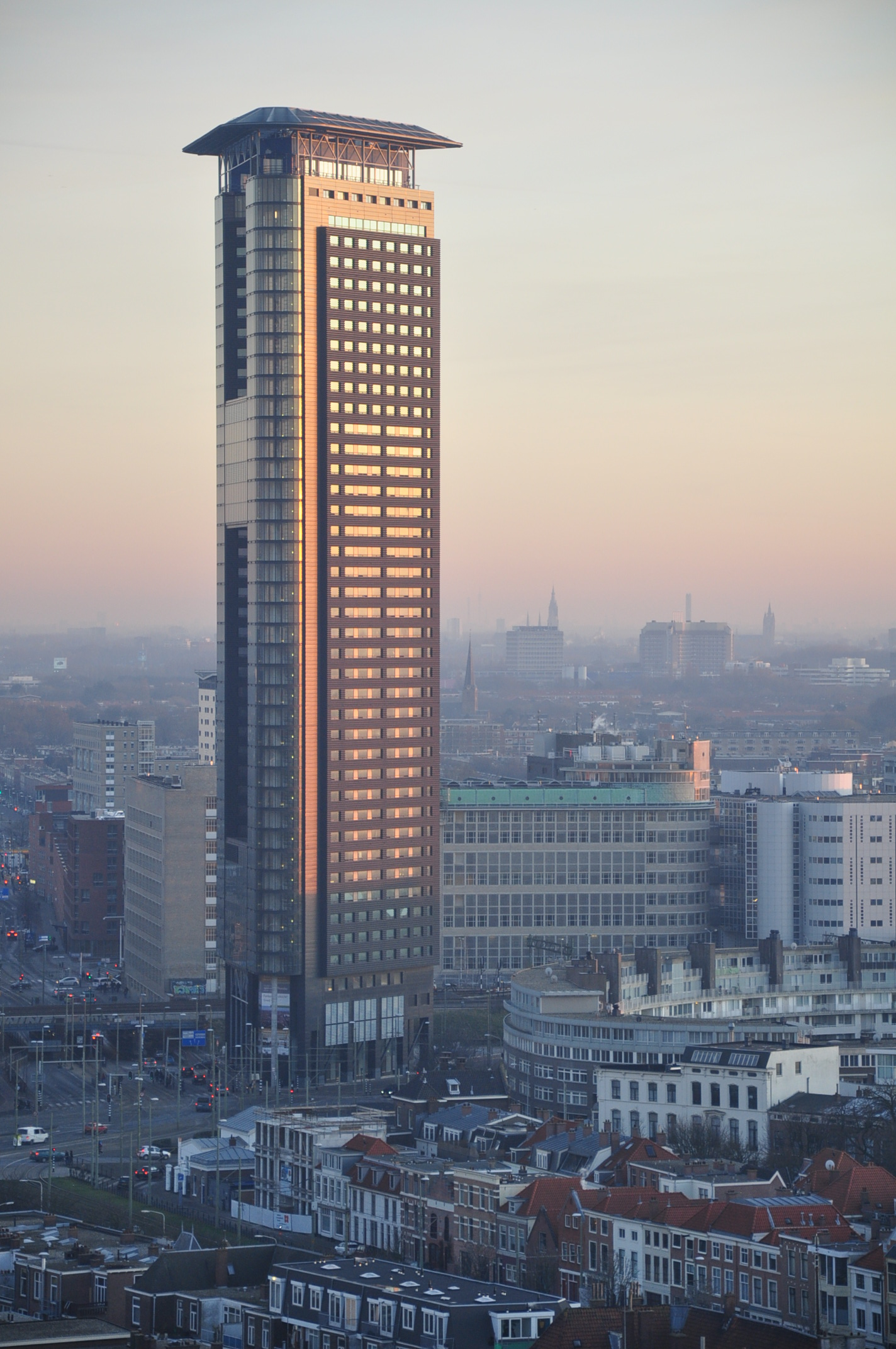 The "Iron" (official name "The Hague Tower" or "New Hague Tower") is a skyscraper of 132 meters in The Hague at the Rijswijkseplein, near railway station Hollands Spoor.